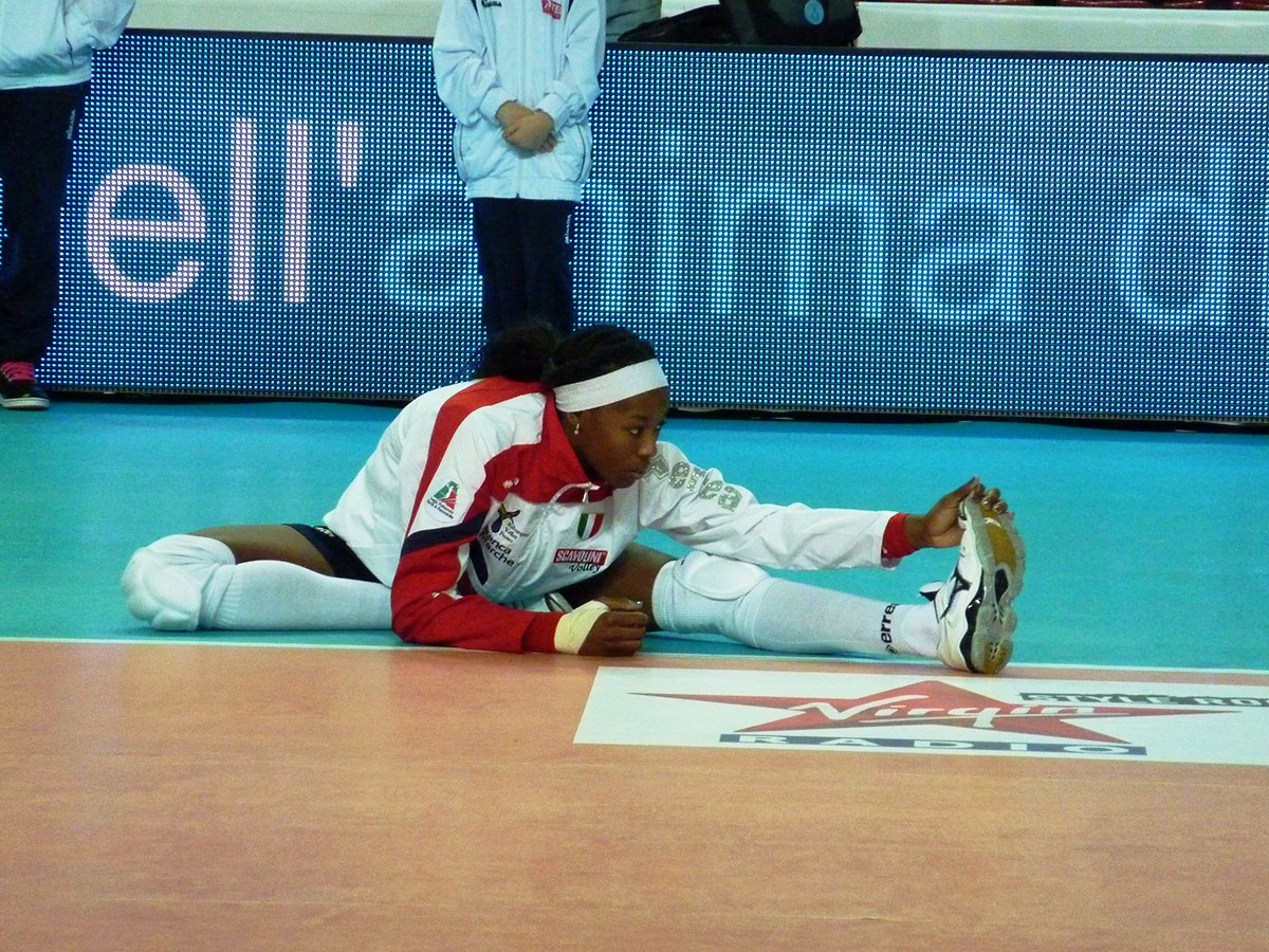 American volleyball player Destinee Hooker stretching